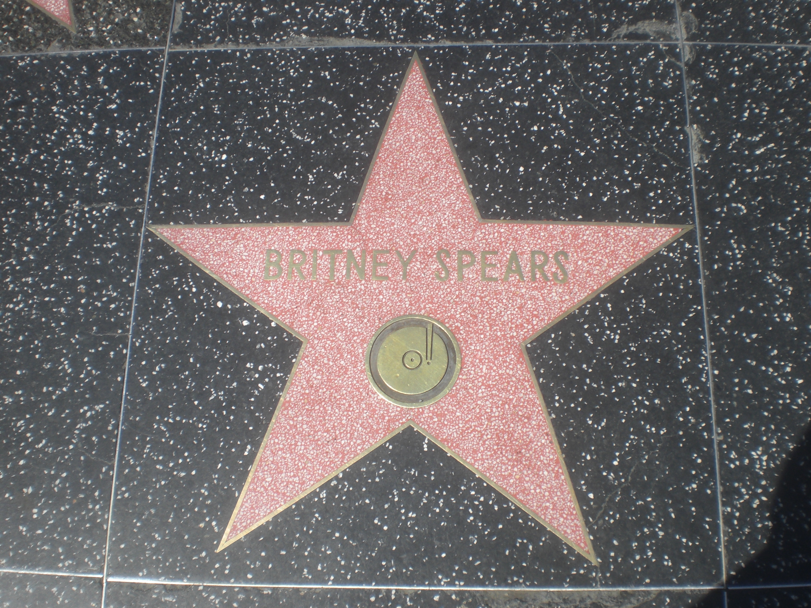 Britney Spears' star on the Hollywood Walk of Fame